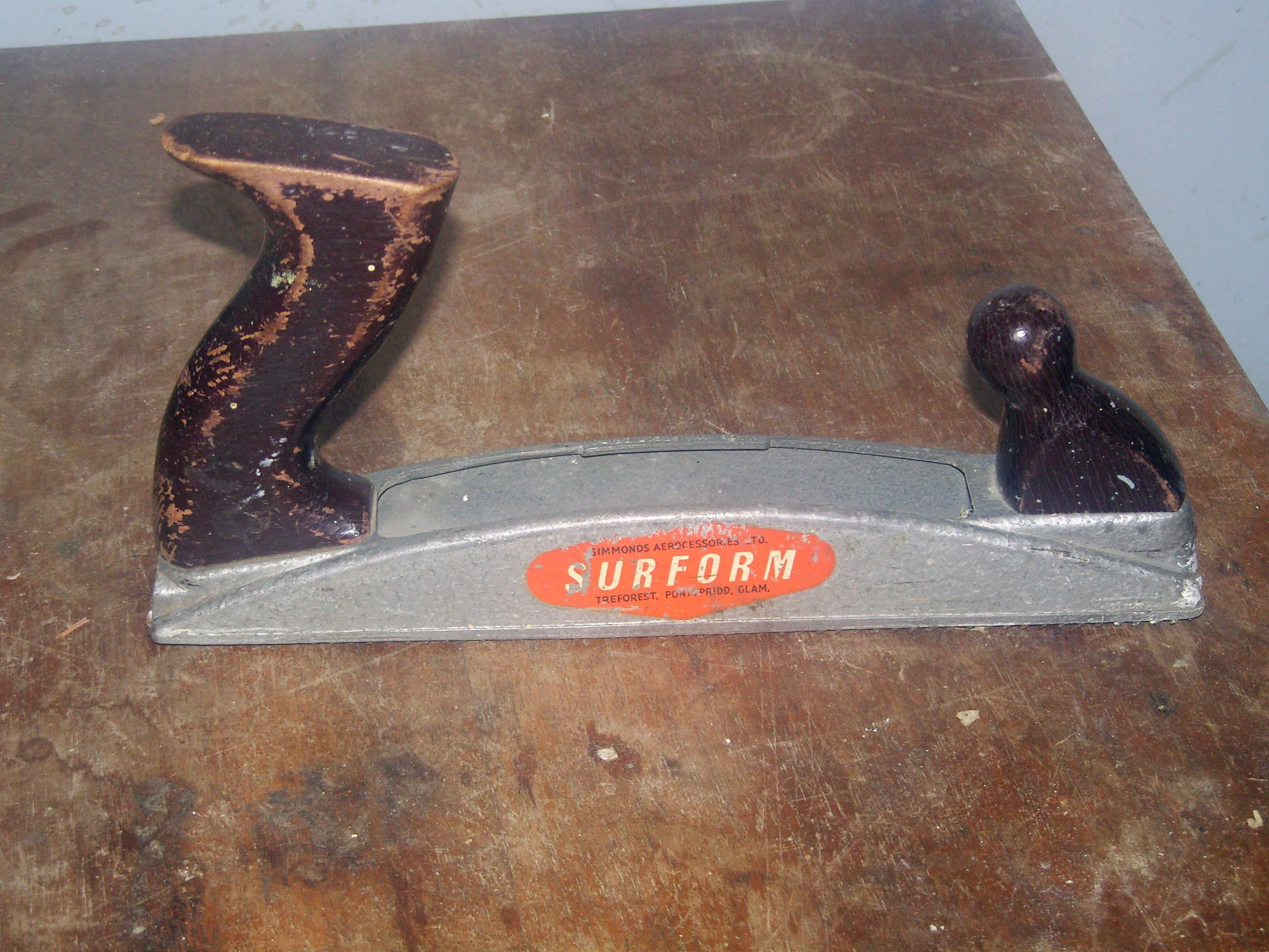 An early surform plane made by Simmonds Aerocessories Ltd in Wales (Treforest, Pontypridd, Glamorgan)